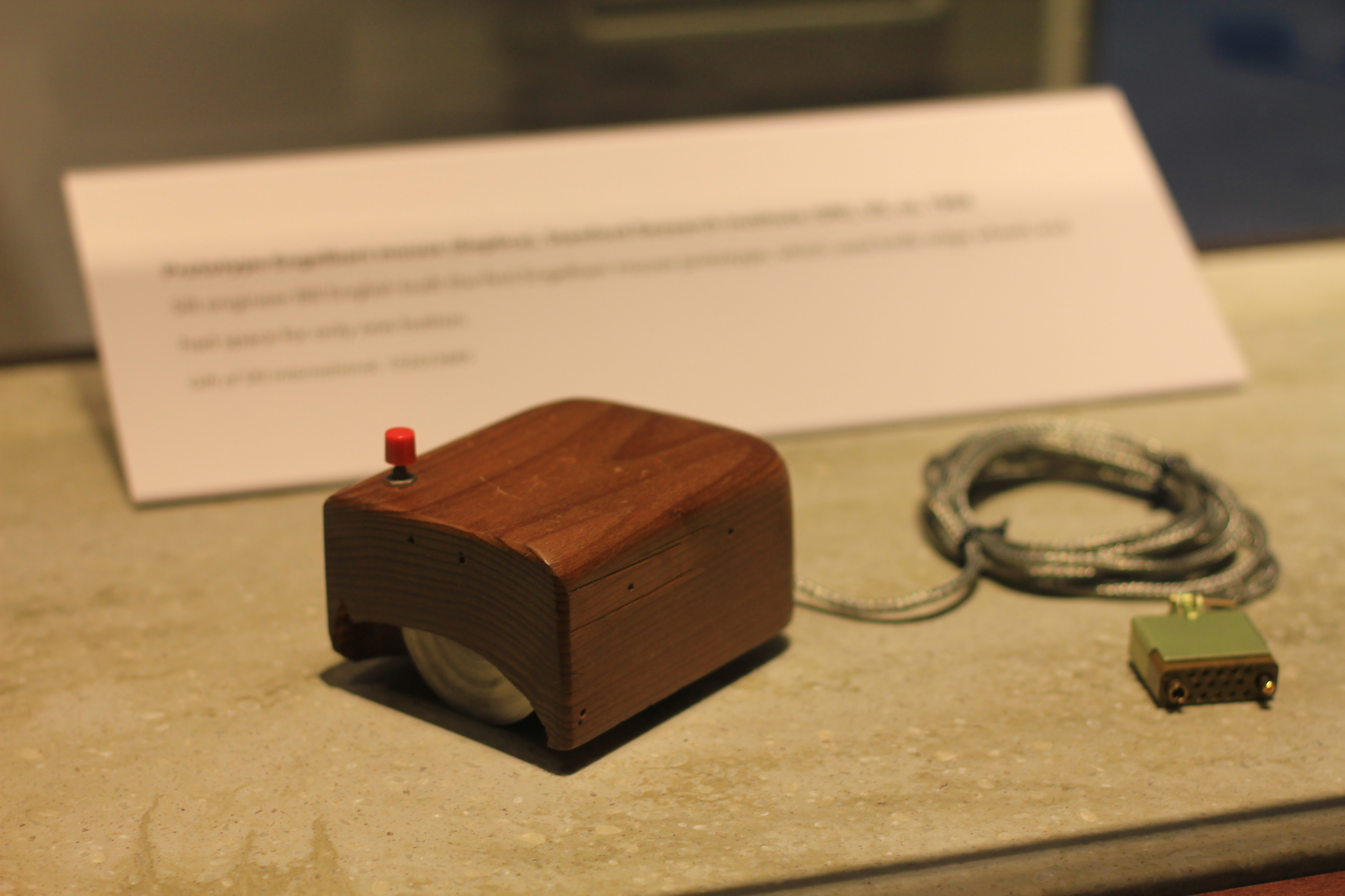 The first prototype computer mouse, developed by Bill English and famously used by Douglas Engelbart in "The Mother of All Demos", a demonstration of the oN-Line System in 1968.